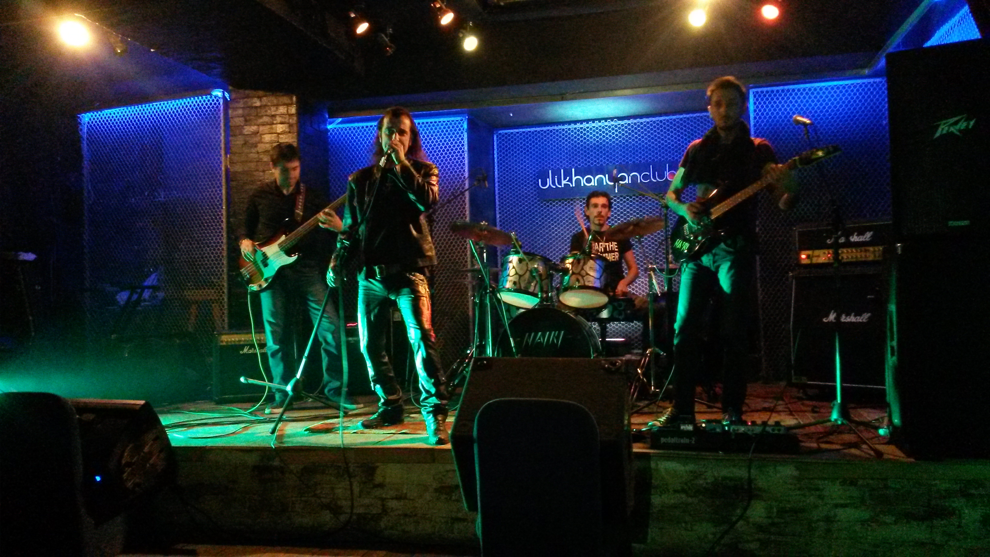 Nairi rock band at Mega Rock 4 concert, Yerevan